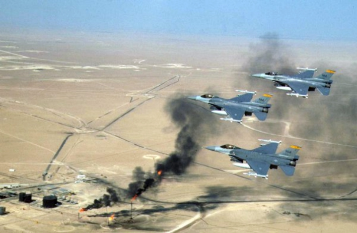 U.S. Air Force General Dynamics F-16C Fighting Falcon fighters from the 188th Expeditionary Fighter Squadron, New Mexico Air National Guard, flying over Kuwaiti oil wells during Operation Southern Watch, 1998. Note the flares burning off gas are NOT oil well fires. The 188th EFS was deployed at Al Jaber Air Base, Kuwait, April-July 1998